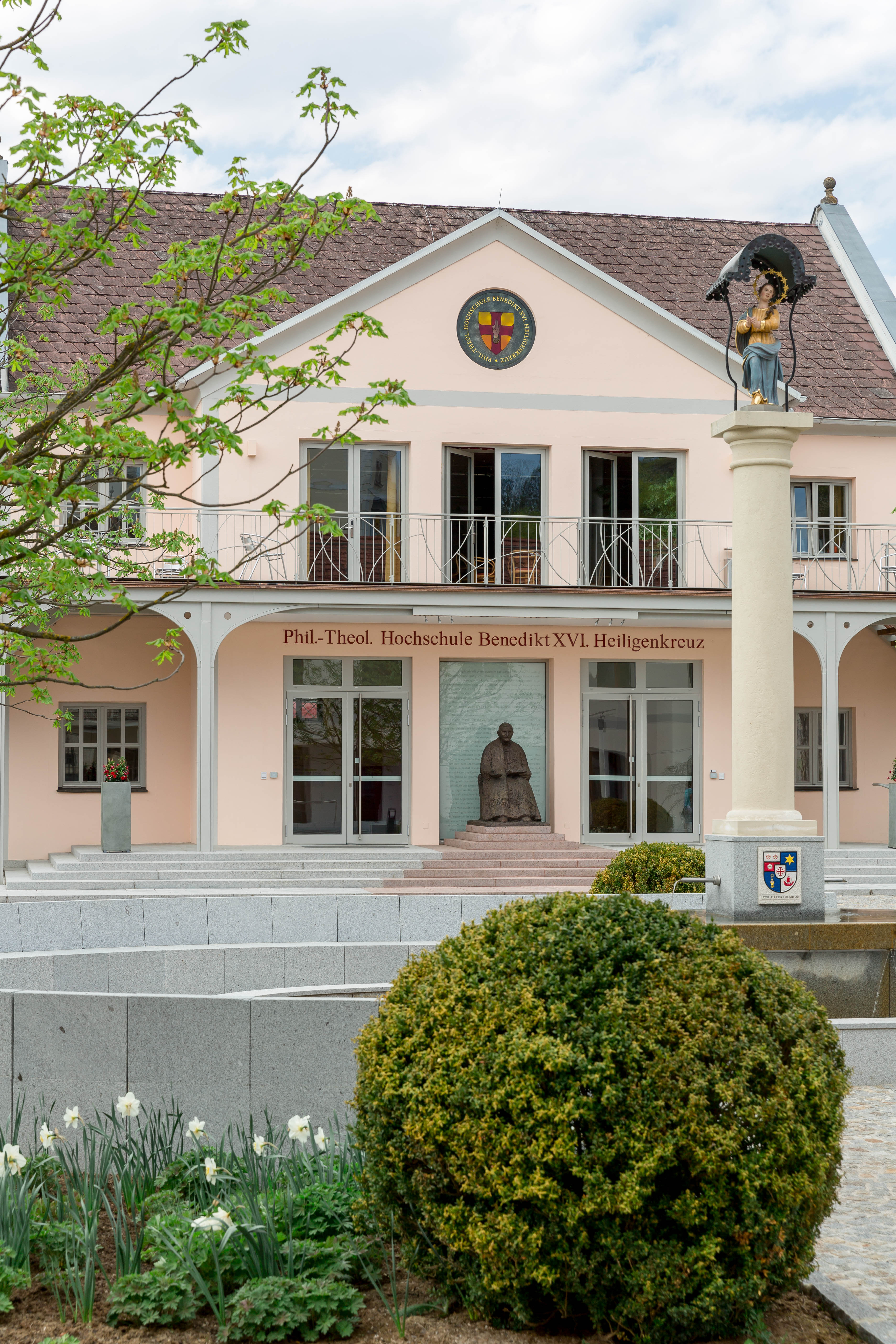 University main entrance with statue of pope Benedict XVI in the middle